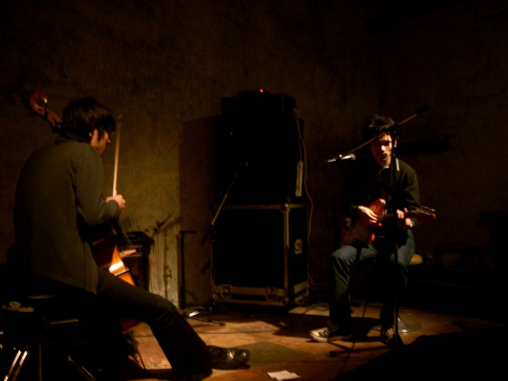 at Urbanguild